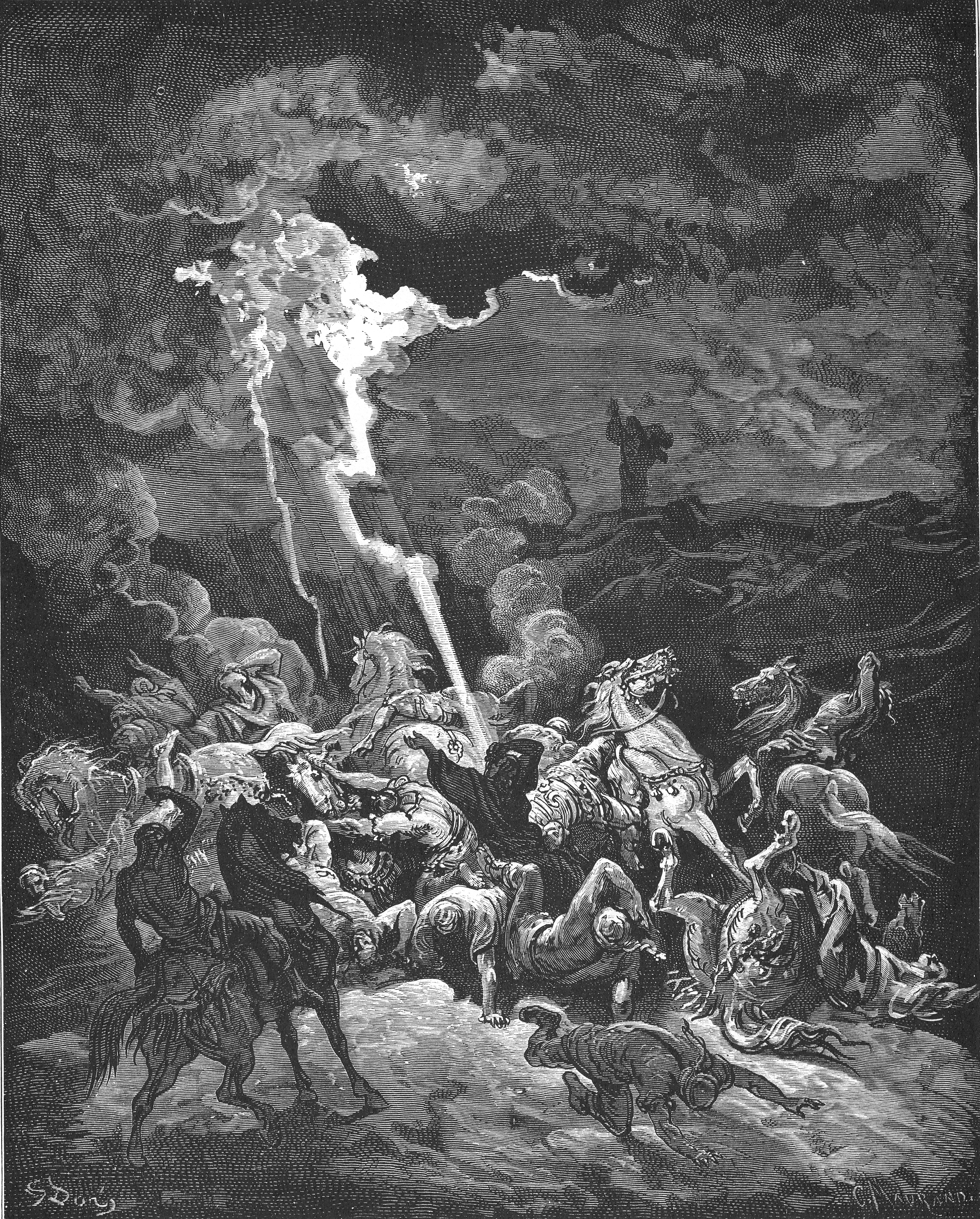 Elijah Destroys the Messengers of Ahaziah (2Kings 1:3-14)